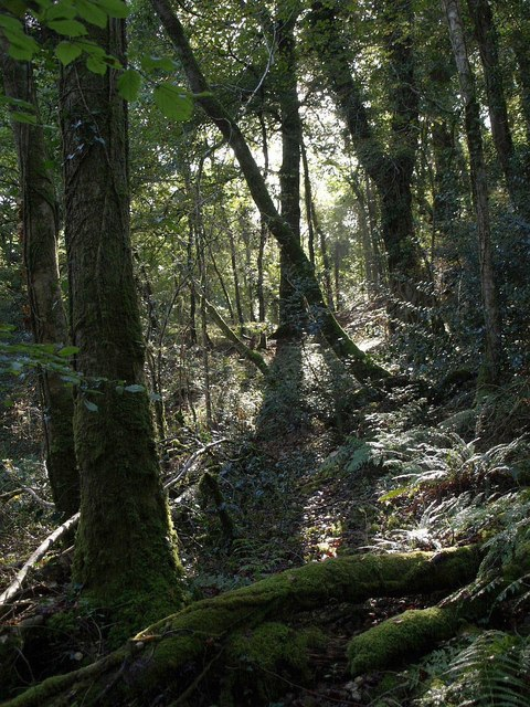 Bremridge Wood Sunlight filters through woodland on steep slopes close to the River Torridge.